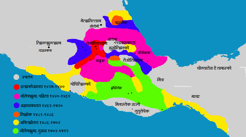 Expansion of Aztecs in marathi caption